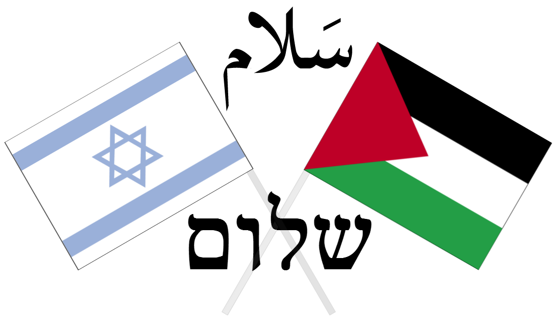 A display of crossed Israeli and Palestinian flags with the word for peace in both Arabic (Salaam/Salam السلام) and Hebrew (Shalom שלום).